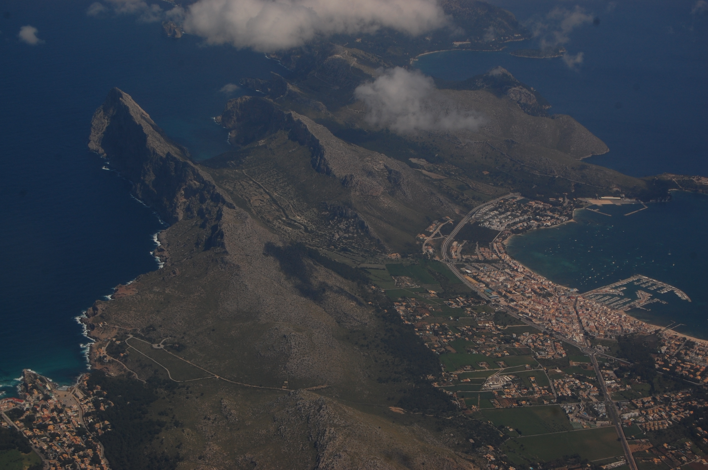 The Boquer Valley and Port de Pollença, Majorca, seen from an aircraft approaching Palma Airport.